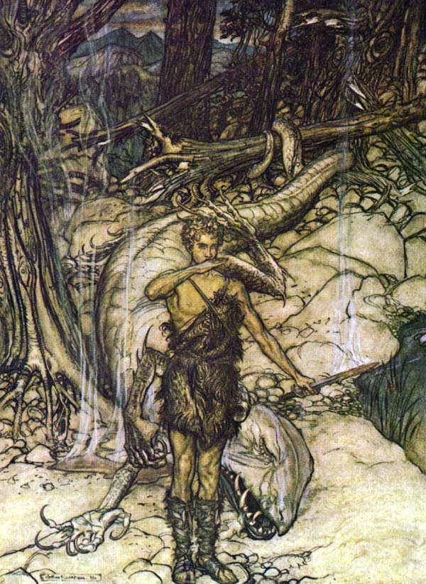 Having slain Fafner, Siegfried tastes his blood and comes to understand the speech of birds.